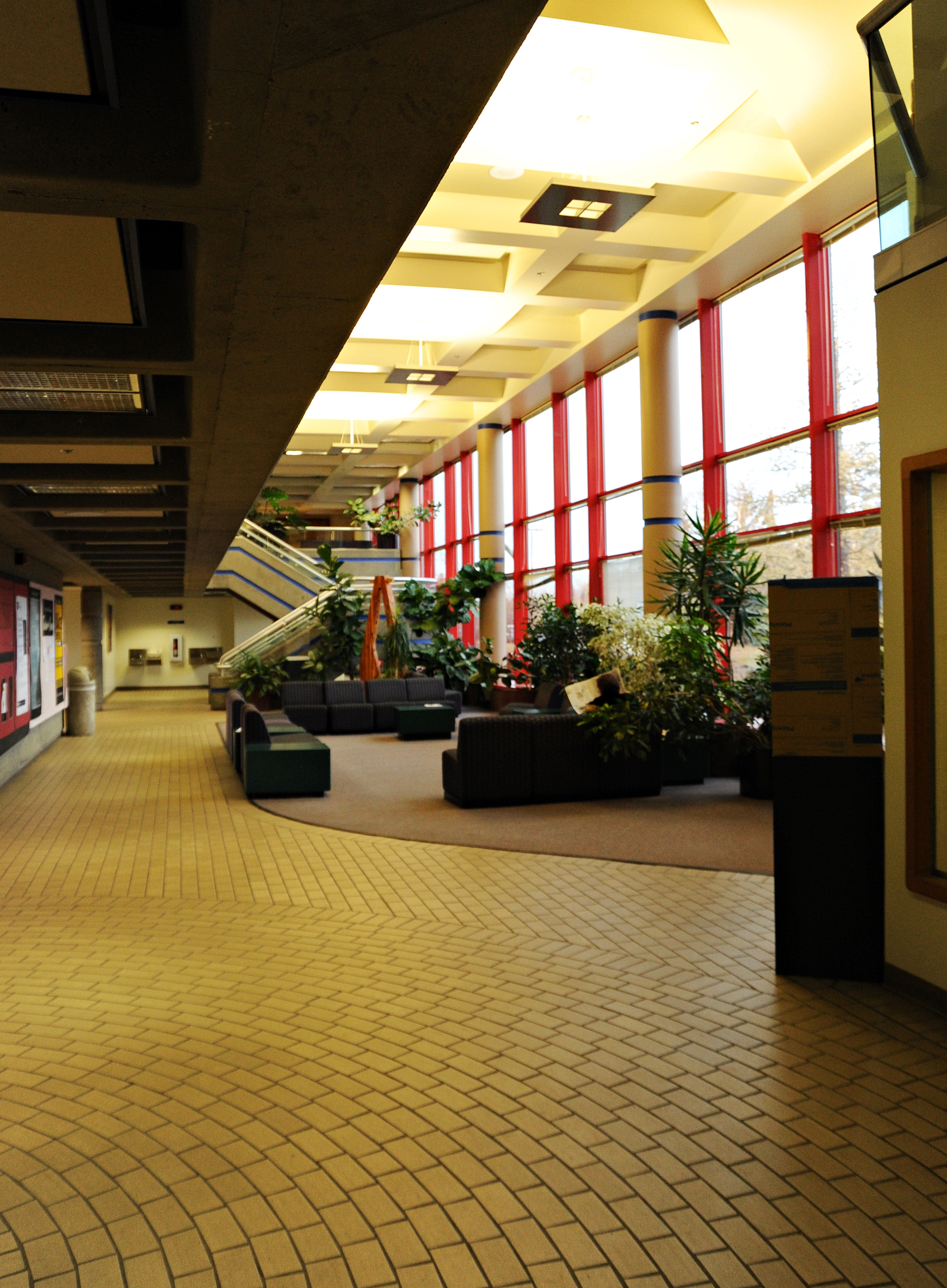 View of the ground-floor lobby of the Arts Building, located along the eastern edge of the University of Alaska Anchorage campus.